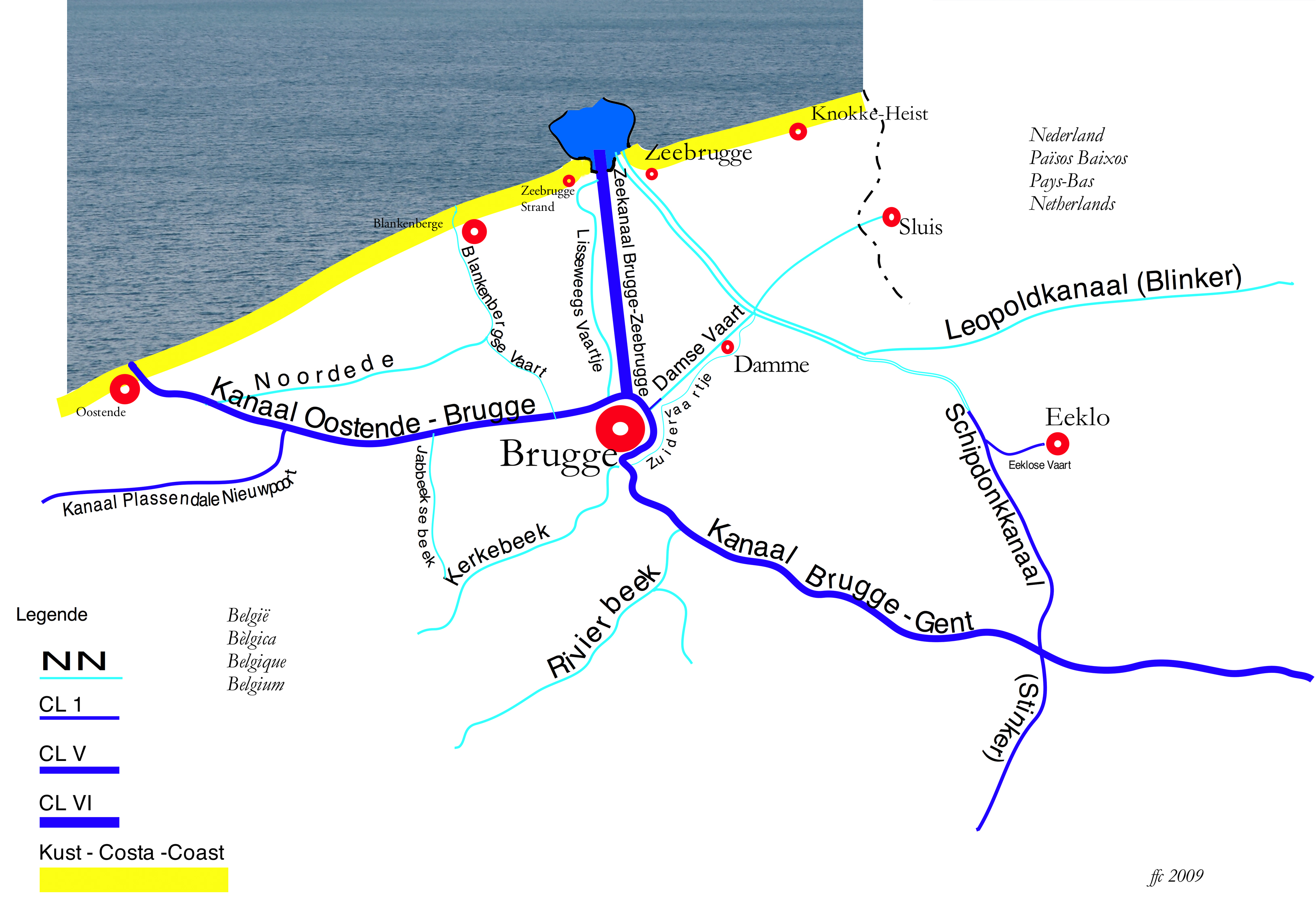 Bruges (Belgium): Map of the waterways of the Bruges Polder